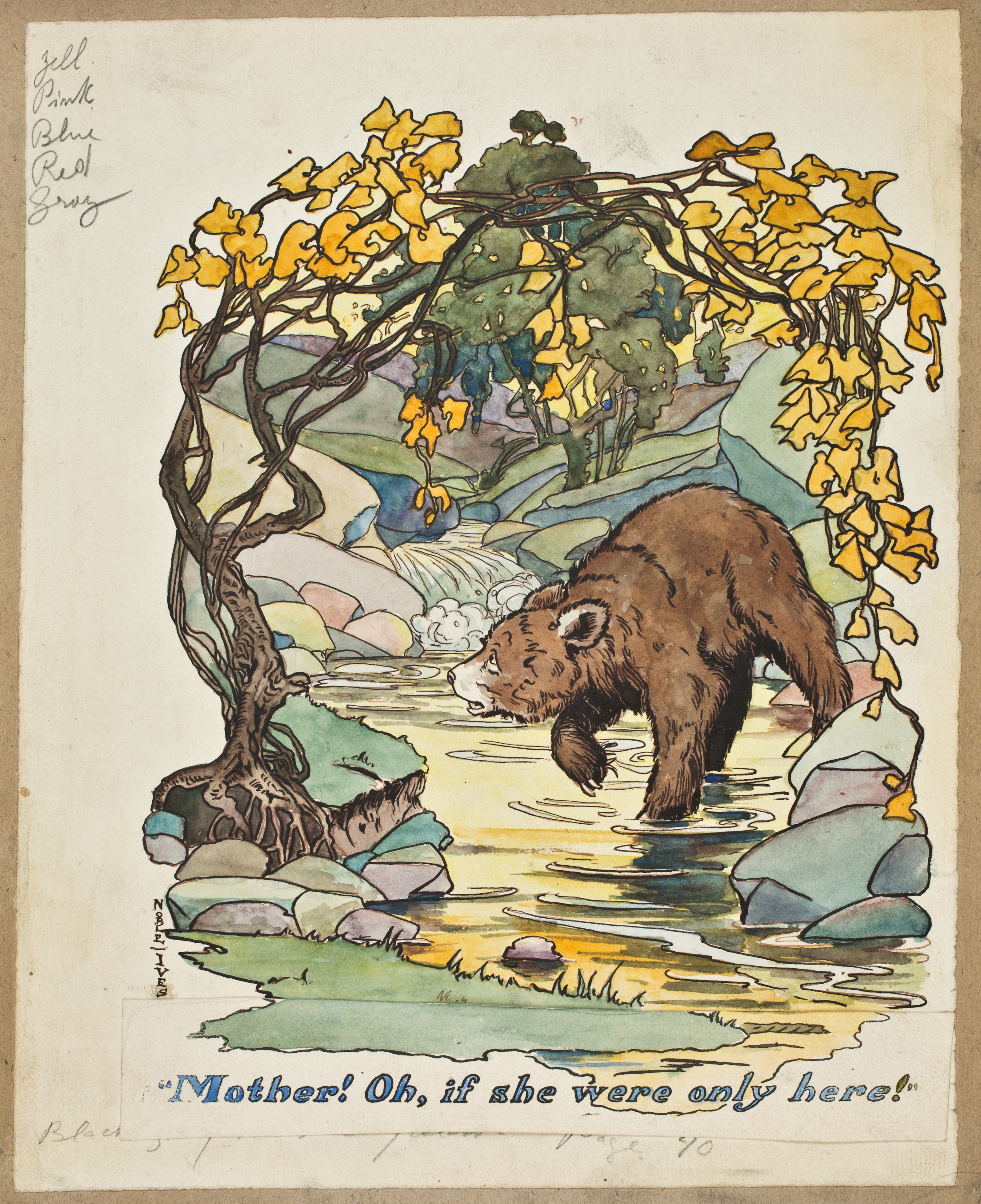 Sarah Noble Ives, “Mother! Oh, if she were only here” from The Story of Teddy the Bear. Watercolor, pen and ink, graphite, with paste-over, ca. 1907.